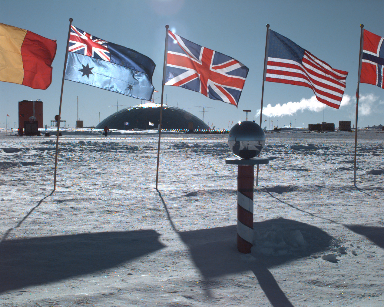 The famous dome of Antarctica's Amundsen-Scott South Pole Station shimmers in the summer sunlight on Jan. 20, 1996. The flags of 13 nations which have officially adopted the Antarctic Treaty fly at the South Pole and represent the unprecedented international cooperation among the world community on the continent. This year 27 carefully selected workers and scientists will "winter over" by spending six months in total darkness in and around the station, sometimes braving temperatures which can fall to minus 100 degrees Fahrenheit, not including wind chill. Between October and February, the remote site at "the ends of the Earth" is reached by LC-130 Hercules ski-equipped aircraft flown by specially trained U.S. Navy and Air National Guard flight crews.